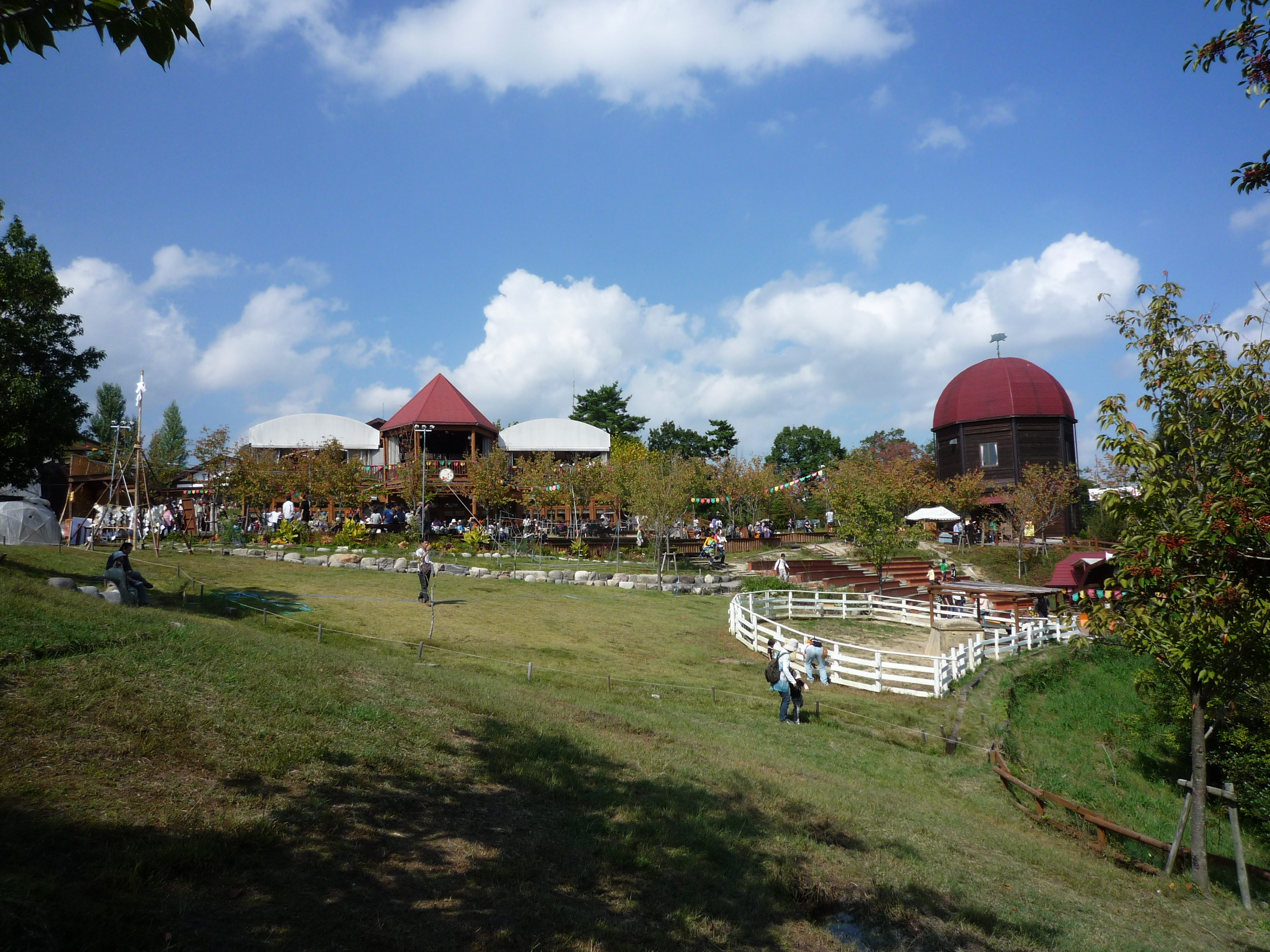 Mokumoku Farm